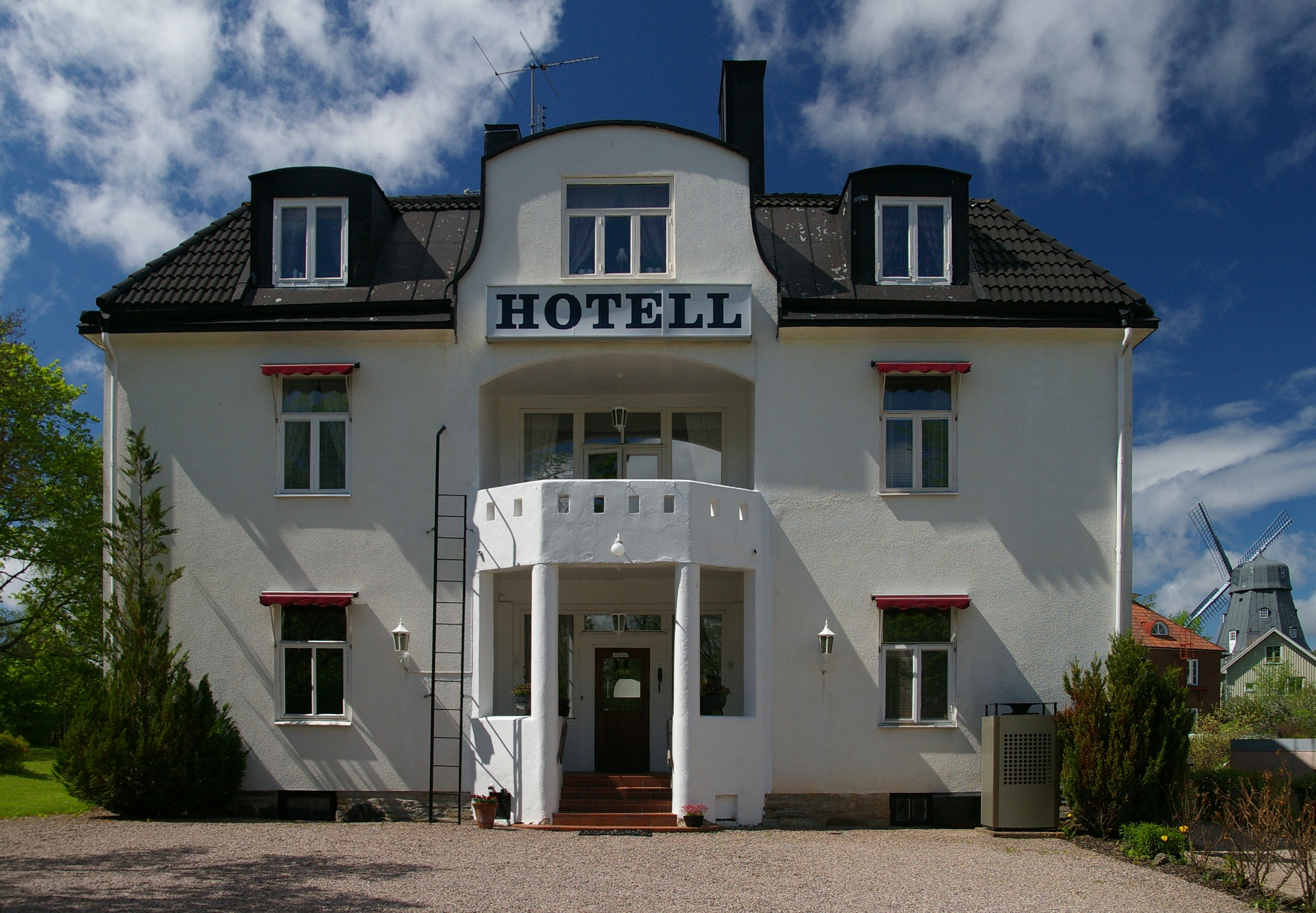 Hotell S:t Olof, Falköping, Västergötland, Sweden